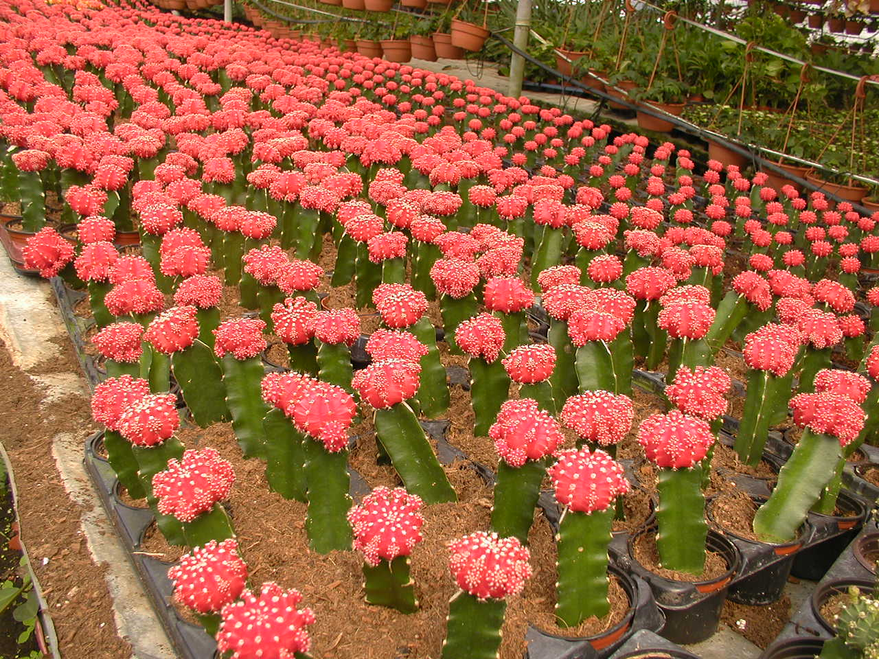 Small cups cacti (Gymnocalycium mihanovichii)